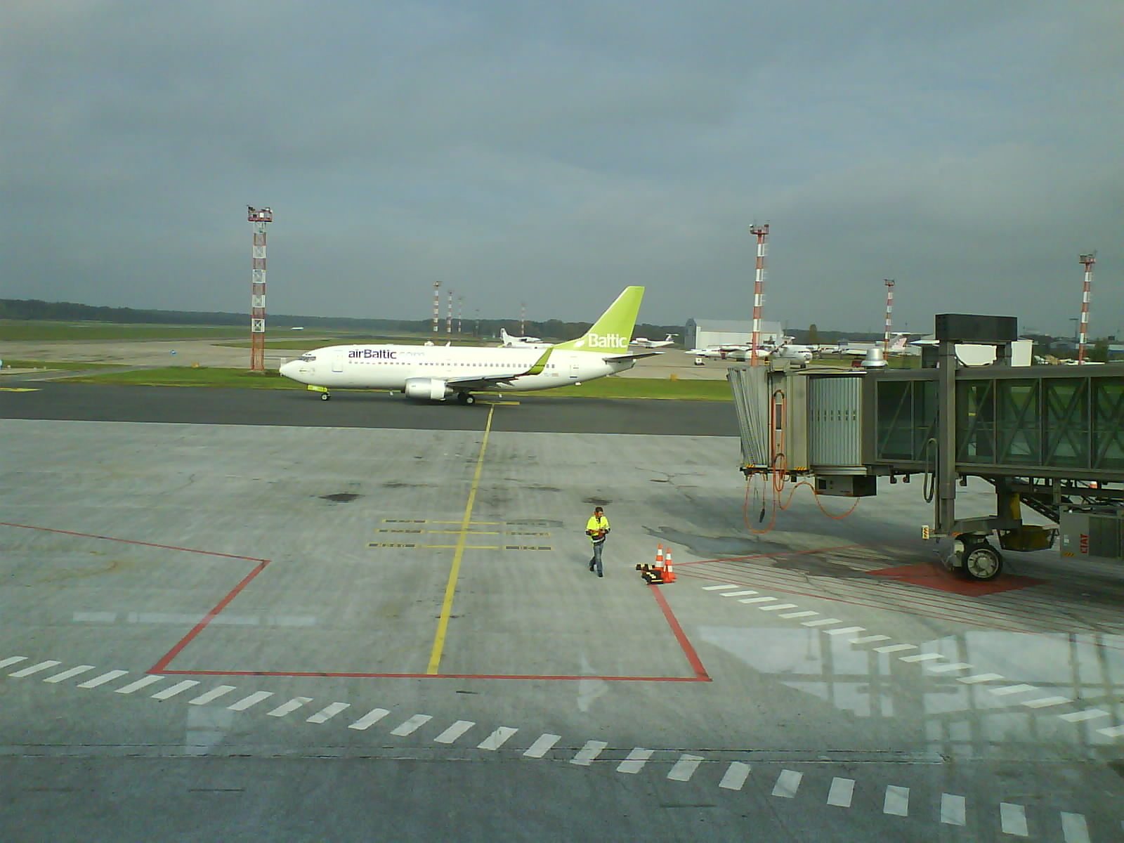 "Air Baltic" plane at Riga airport